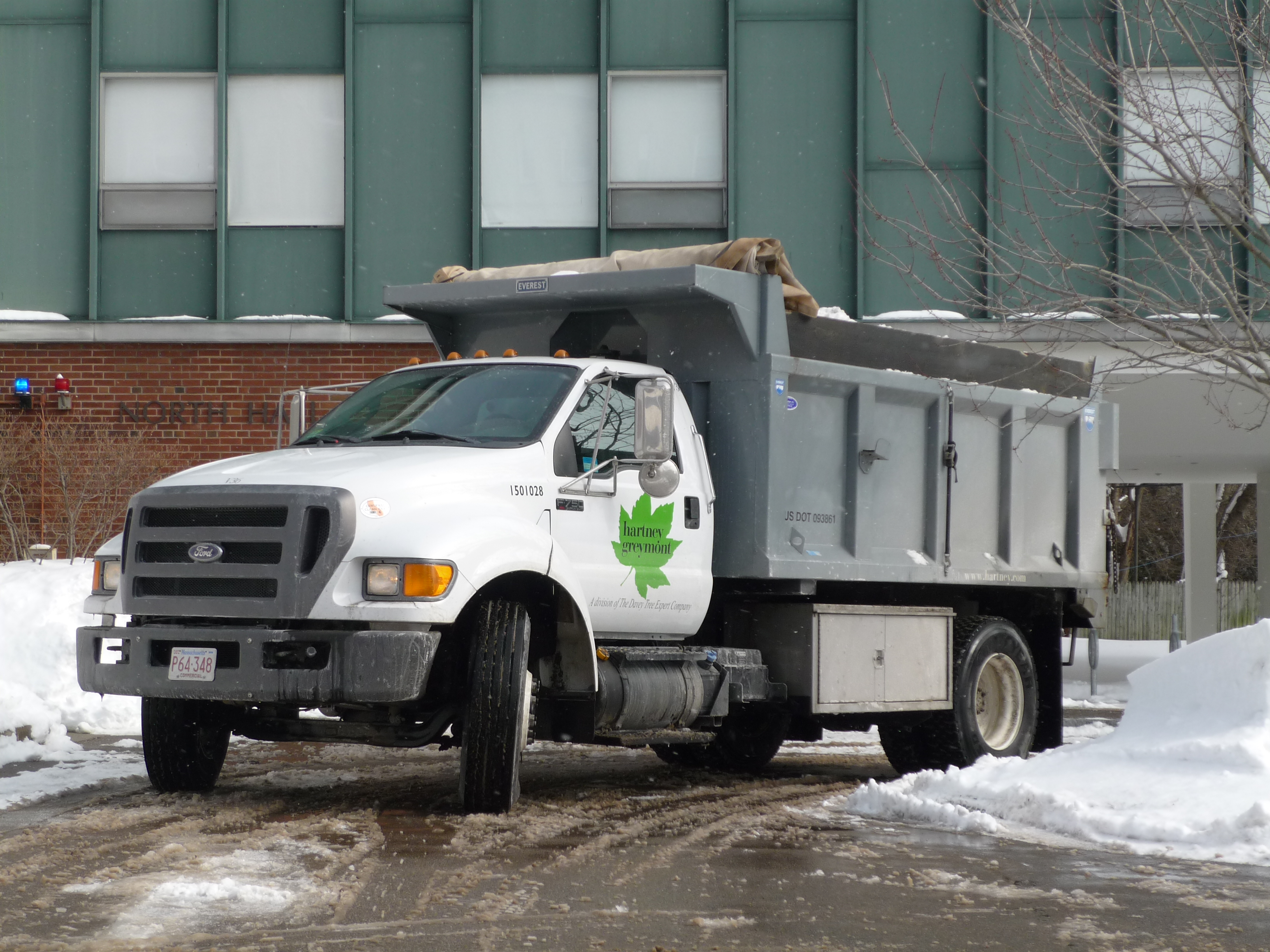 Built in Ohio and on the market since the year 2000, the F-750 is currently the largest truck you can buy from Ford and (at the heavy duty end of the F-750 range) the closest thing to a true successor to the old L-Series. This one is dealing with landscaping/snow issues at a Harvard dorm.